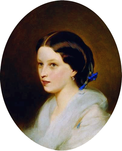 The potraiit of Maria Pushkina, daughter of Aleksander Pushkin